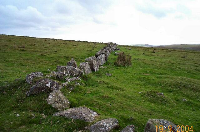 Reaves at Hen Tor Warren - Dartmoor. One of the Bronze Age reaves (ie. field boundaries) at Hen Tor Warren. There's a lot of old remains in this area.